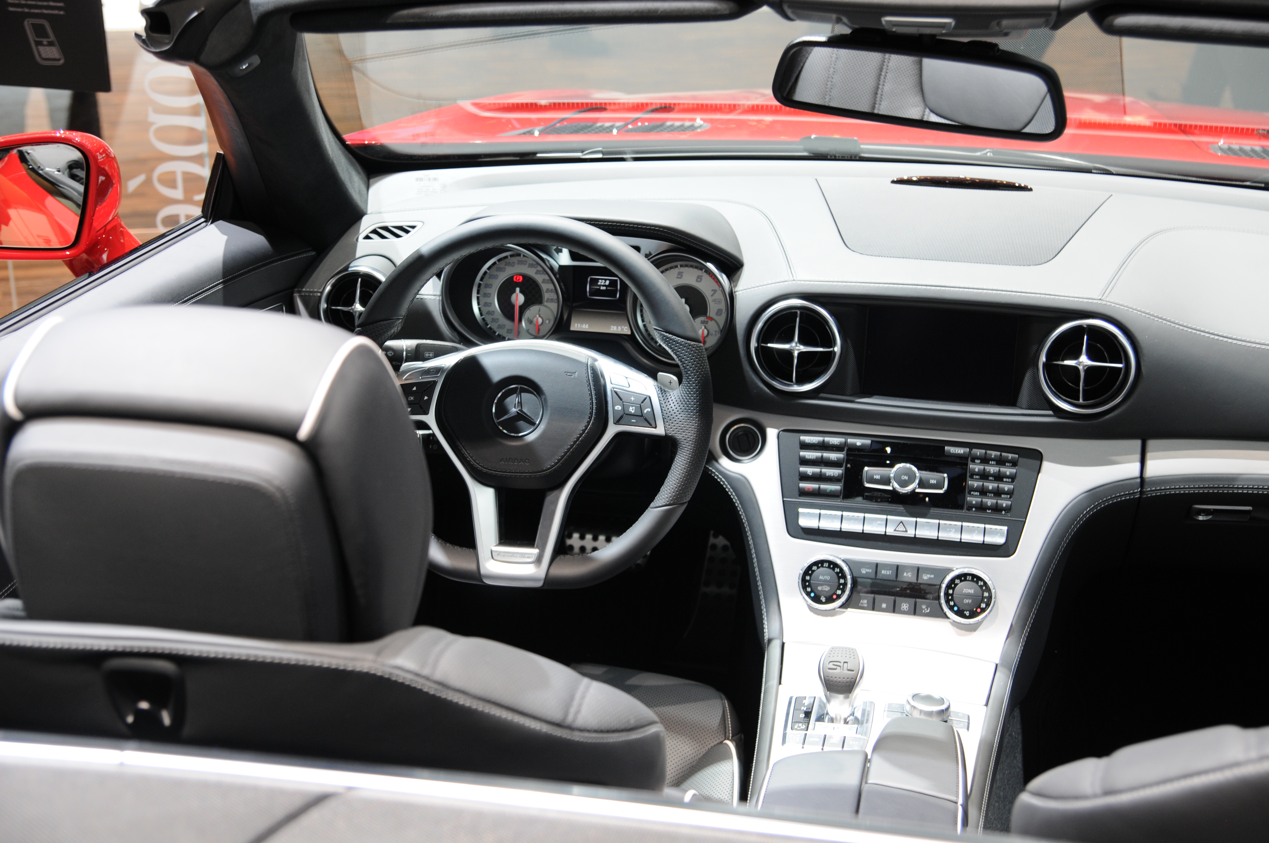 Geneva Motor Show 2012 (photos taken on the second press day)